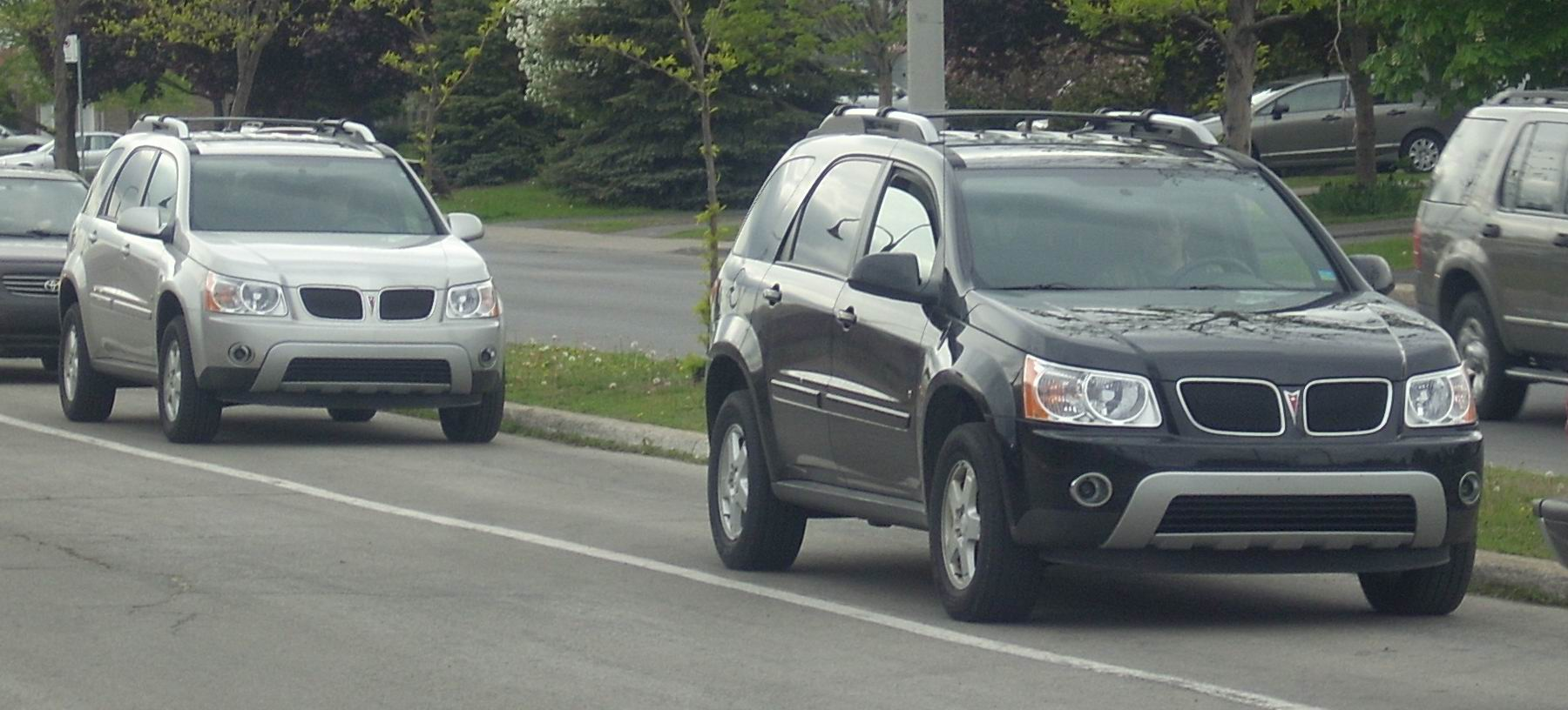 2006-2009 Pontiac Torrents photographed in Montreal, Quebec, Canada.